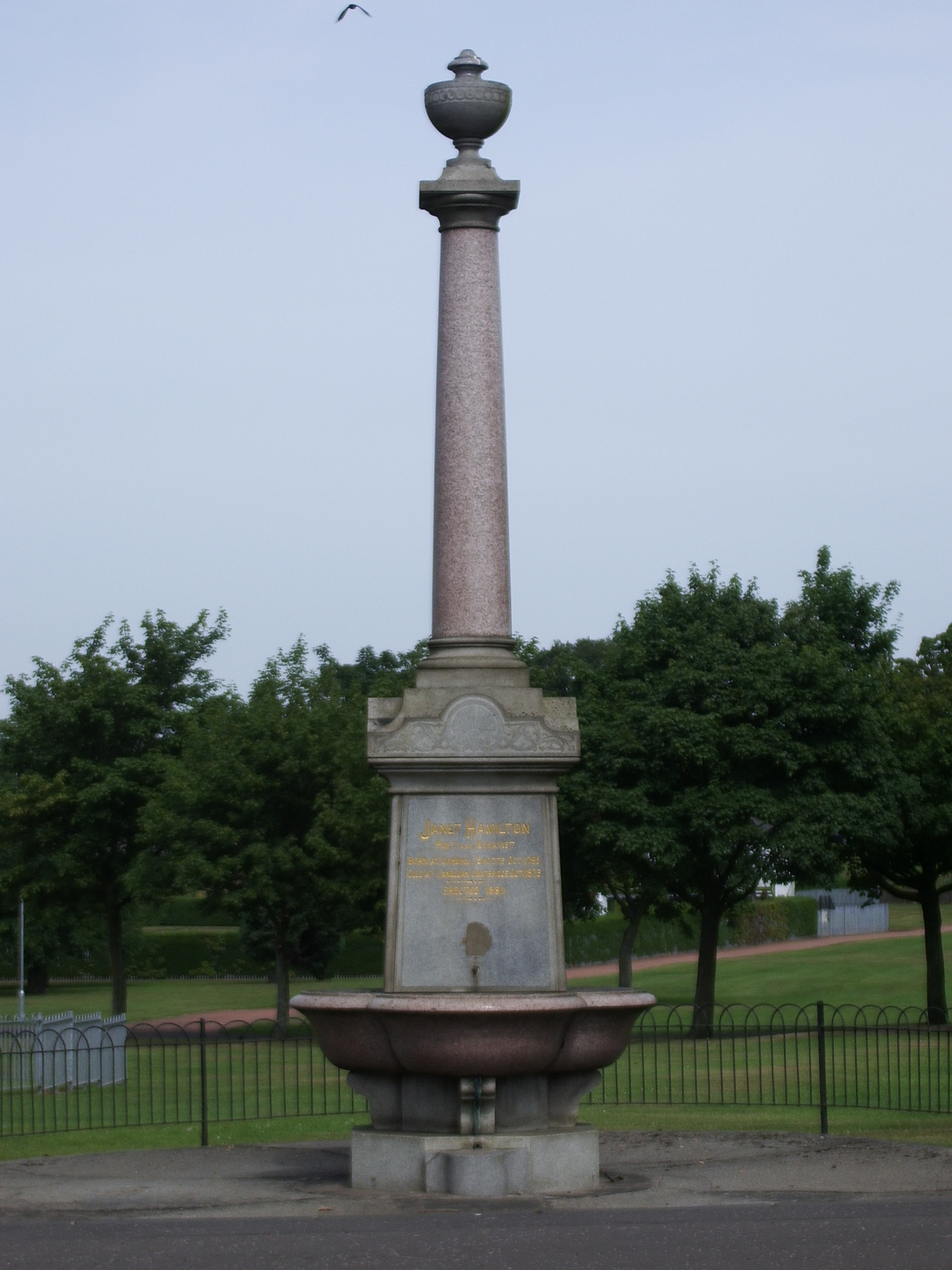 Janet Hamilton Fountain, West End Park, Coatbridge, Scotland, looking north